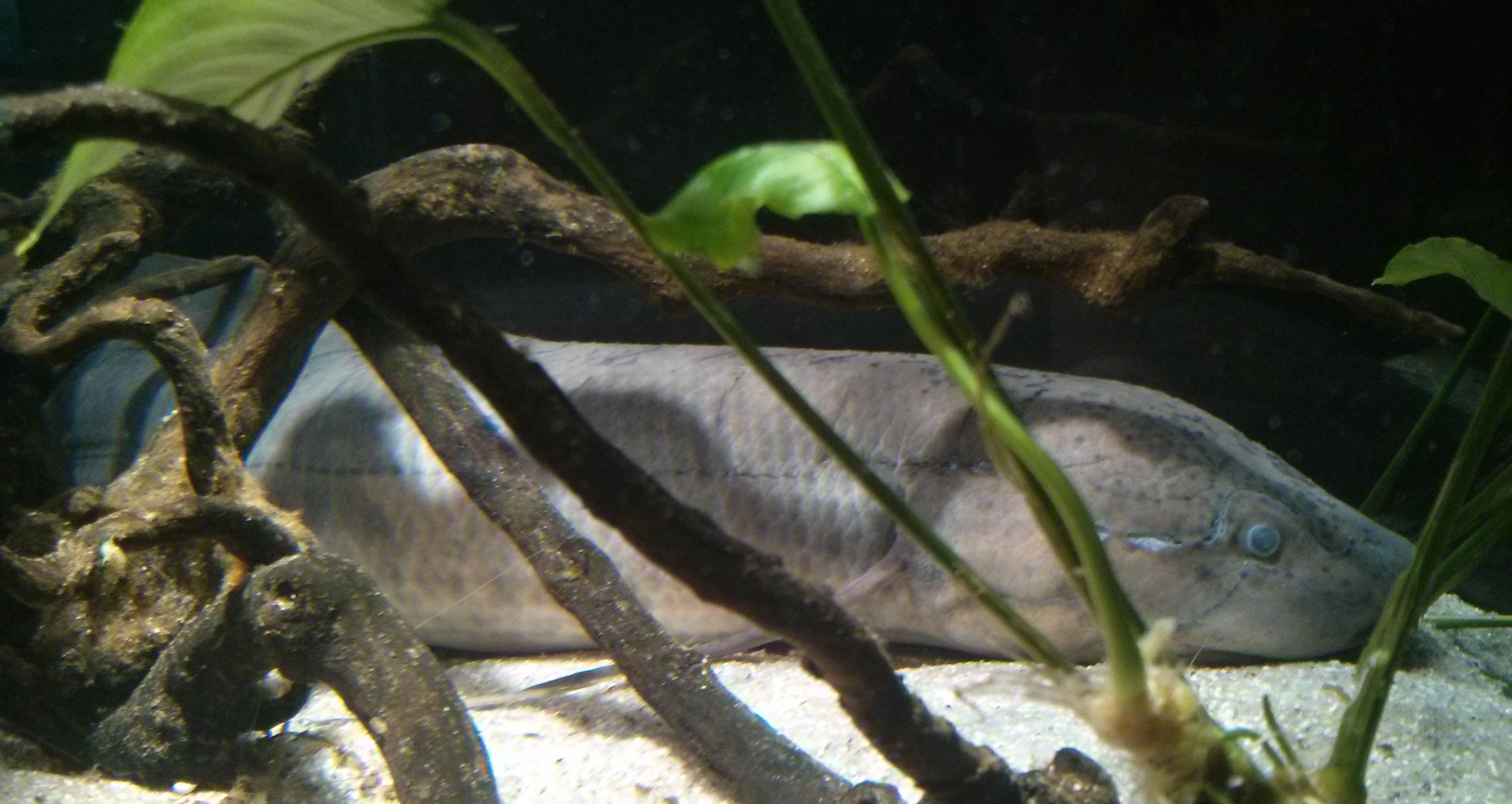 East African lungfish